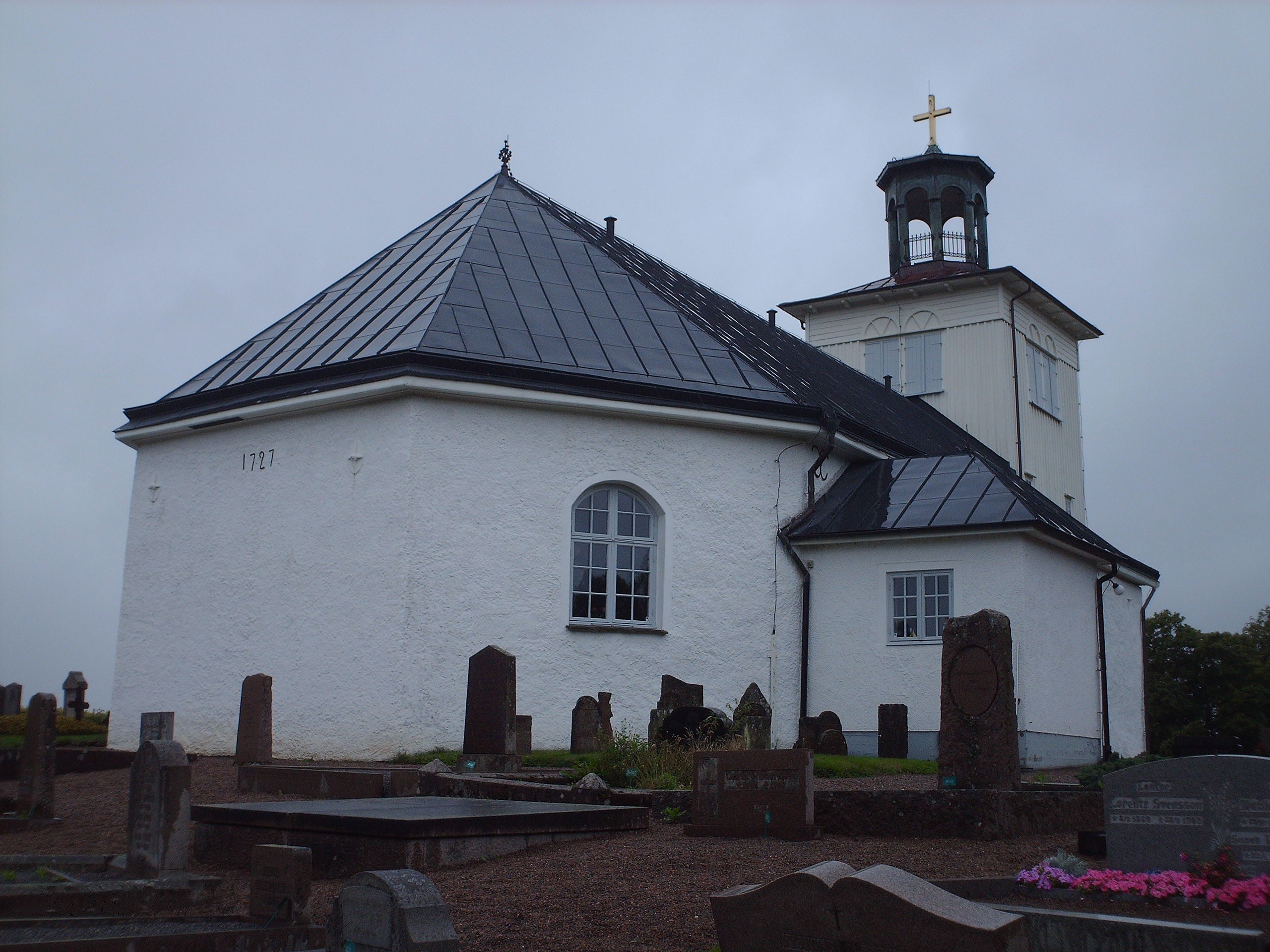 Nödinge Church, Sweden